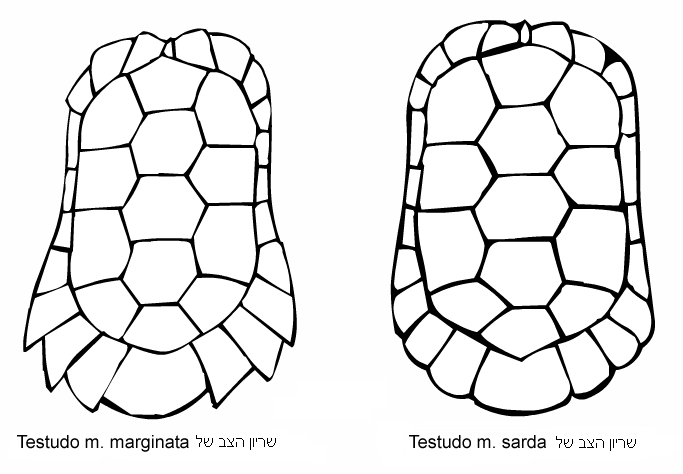 Diagram showing the difference in shape of the carapace of the subspecies of Marginated Tortoise.